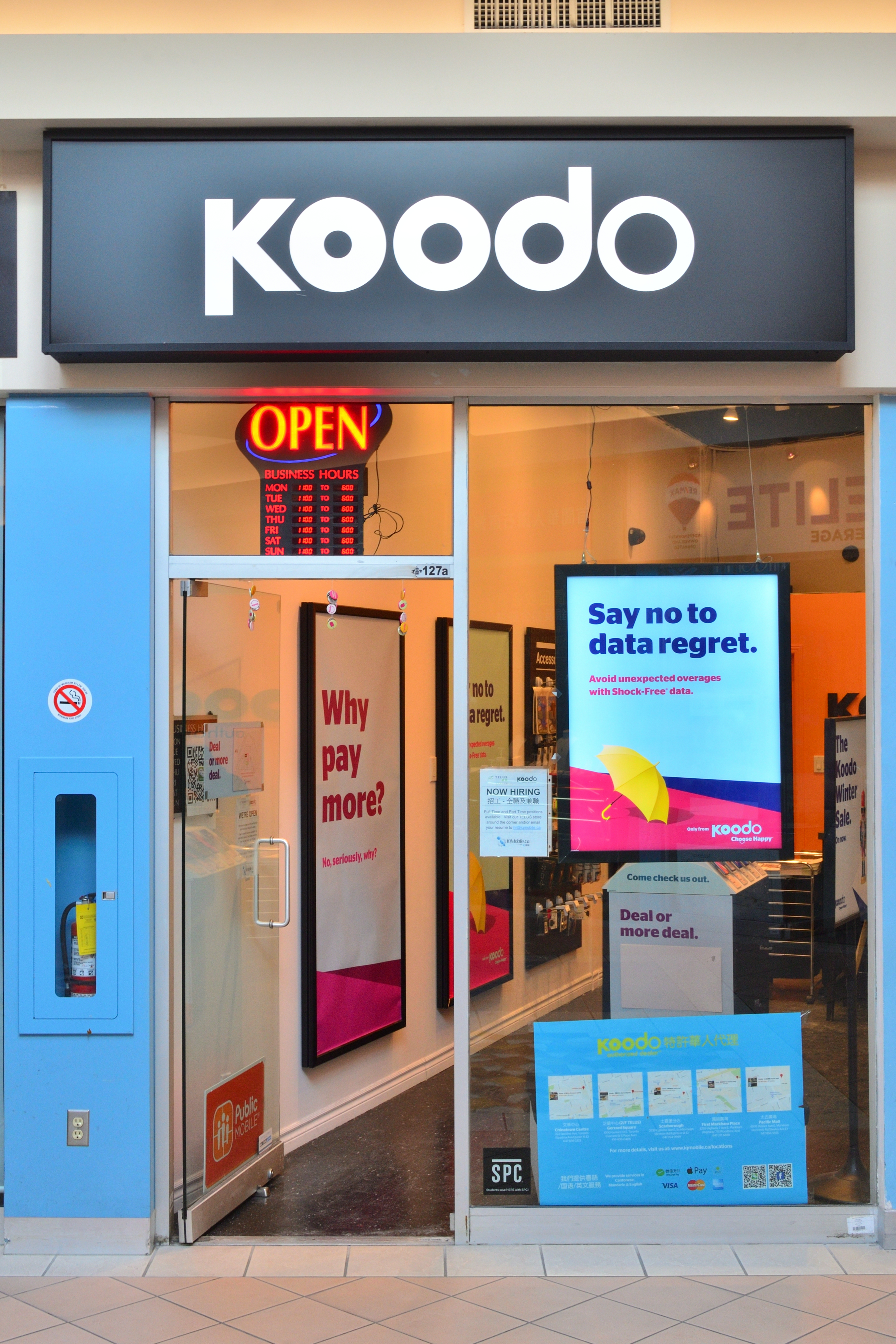 Koodo at First Markham Place